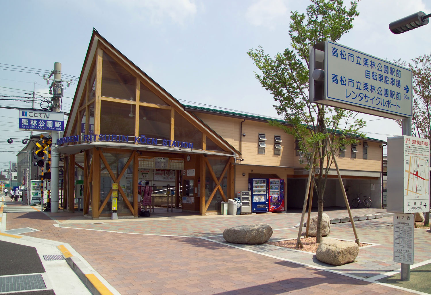 This photograph shows Ritsurin Koen Station of the Takamatsu-Kotohira Electric Railway in Takamatsu, Kagawa prefecture, Japan. I took the photograph and contribute my rights in the file to the public domain; individuals and organizations retain rights to images in it.